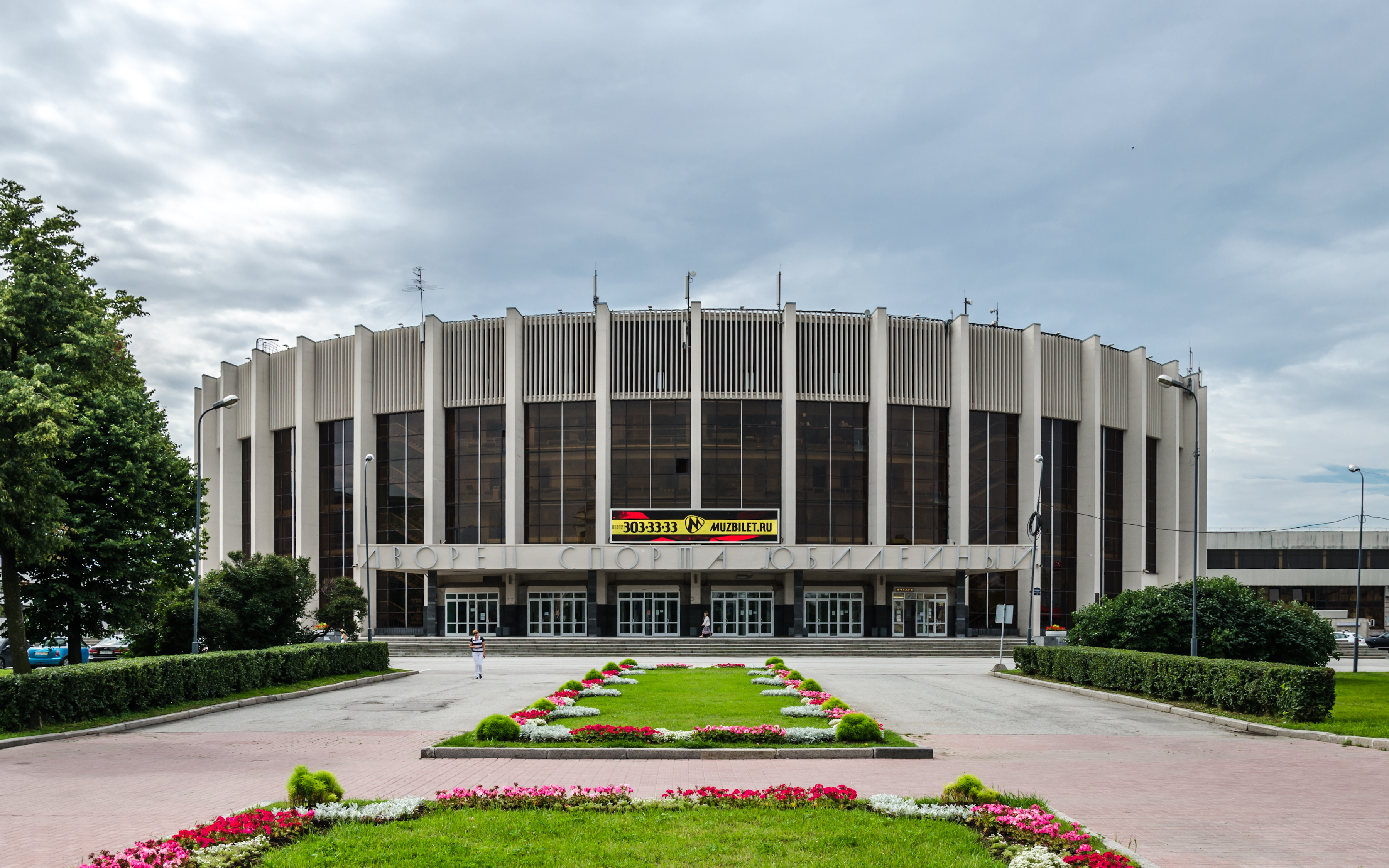 Sports Palace "Yubileyniy" in Saint Petersburg